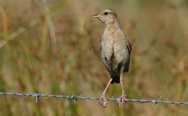 Male Brown Songlark Cincloramphus cruralis - Baradine